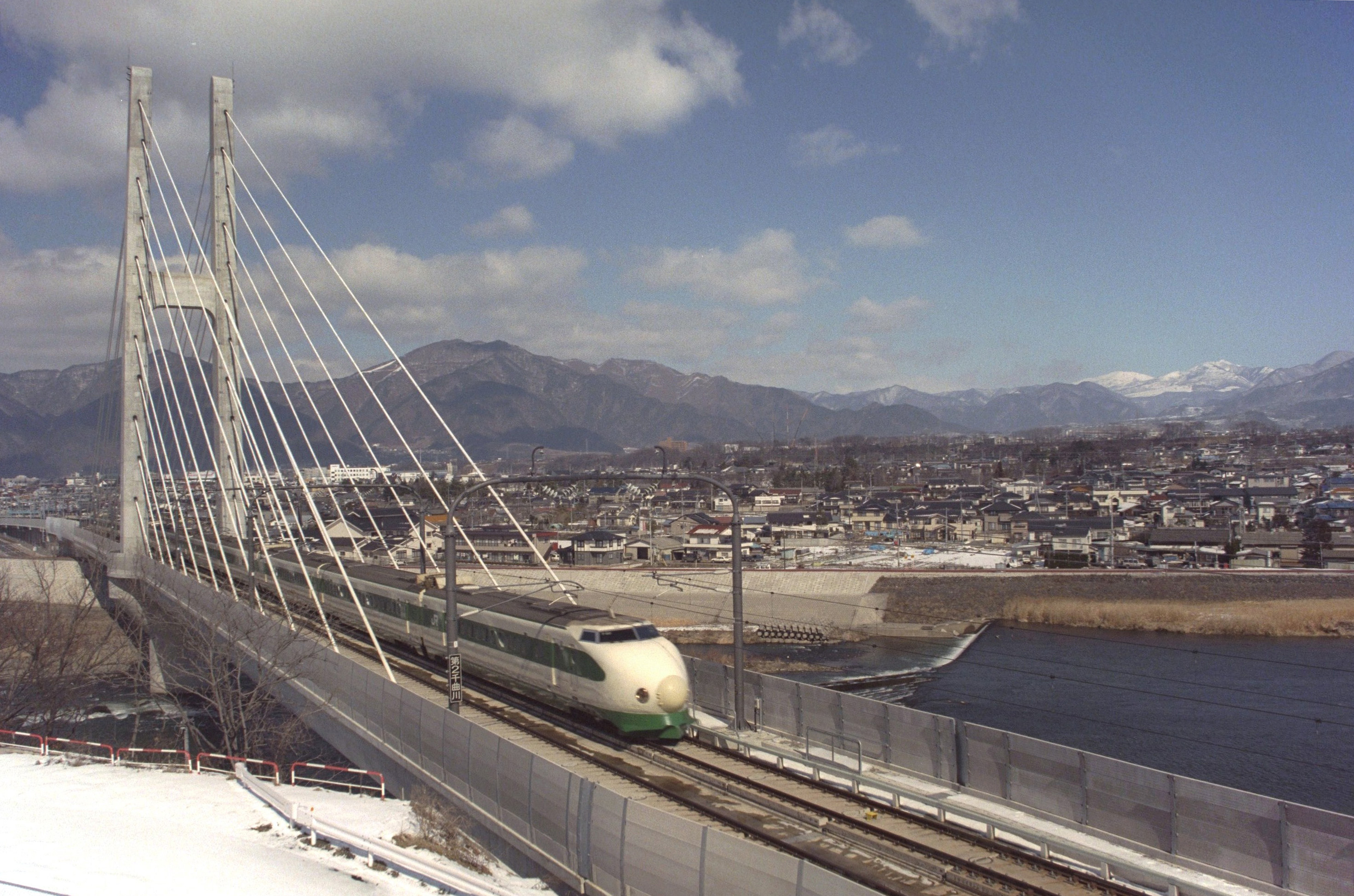 JR East 200 series shinkansen set F80 on a seasonal Nagano Shinkansen Asama service near Ueda Station